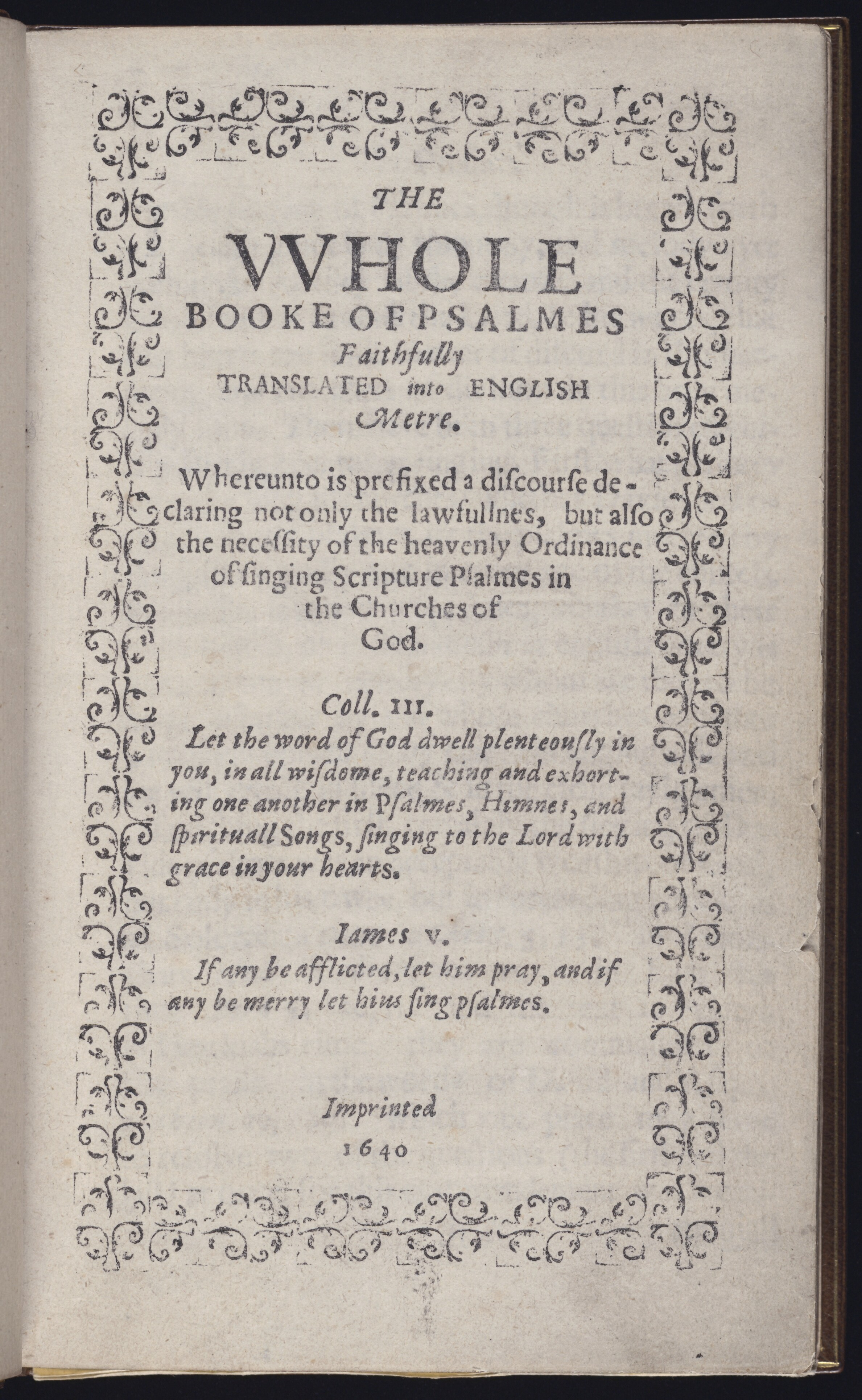 Title page of the Bay Psalm Book printed by Stephen Day at Cambridge, Massachusetts Bay Colony, 1640.